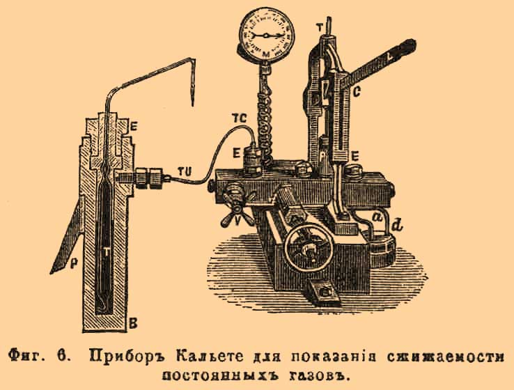 Illustration from Brockhaus and Efron Encyclopedic Dictionary (1890—1907)